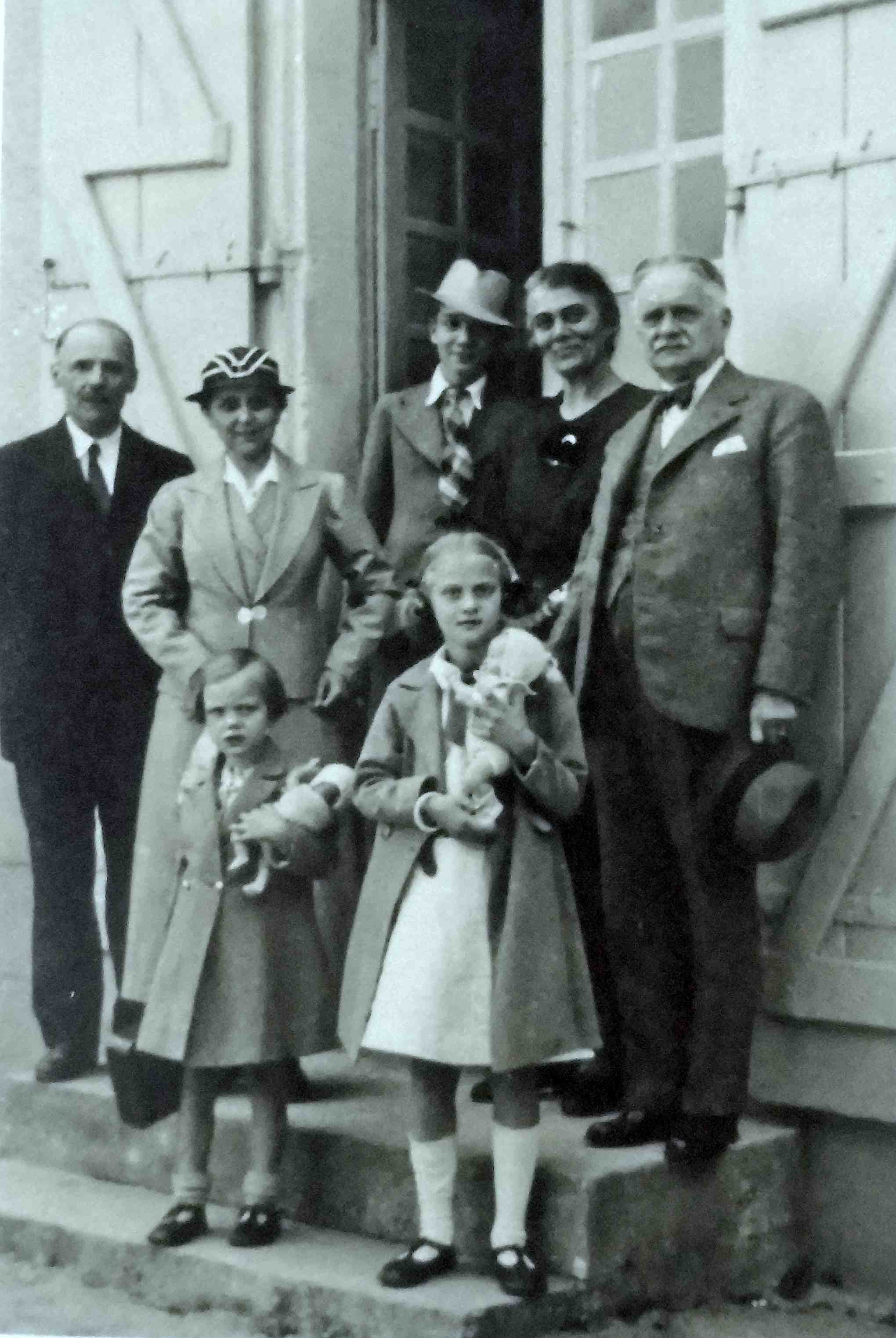 Malègue's wife and other members of his family